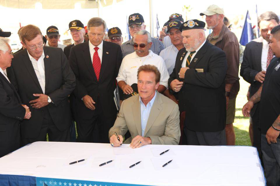 Arnold Schwarzenegger, the governor of California, signs legislation annually declaring March 30 as "Welcome Home Vietnam Veterans Day" throughout the state of California at Lance Cpl. Torrey L. Gray Field here Sept. 25.